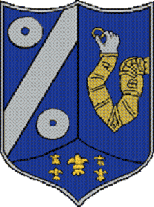 Coat of arms of Molina Royal Manor (Guadalajara, Spain).